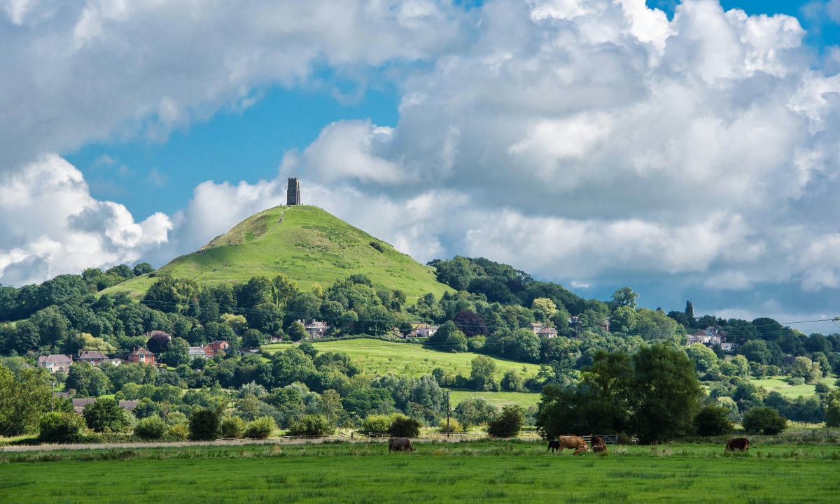 Glastonbury Tor: View of an iconic landmark